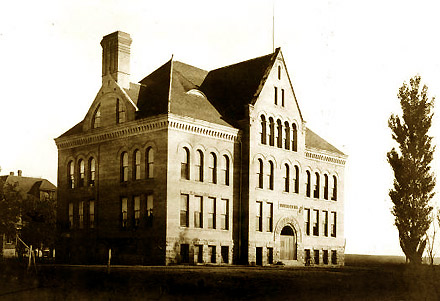 Hodgin hall at the University of New Mexico, it was the first building on campus. It stands as it looked in 1904, before renovations of the "pueblo revival style"